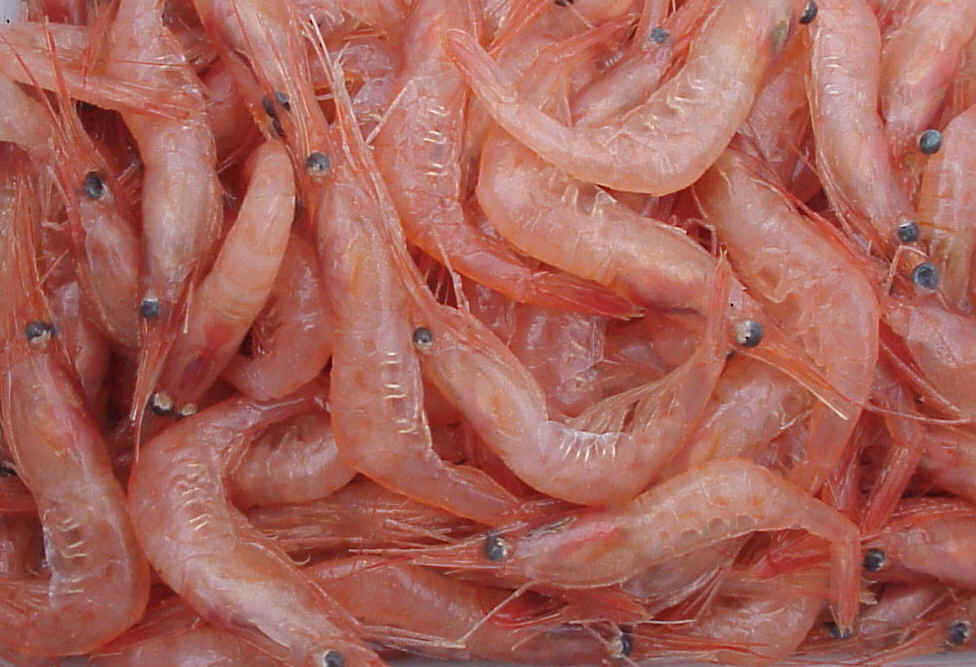 A heap of Pandalus borealis shrimp. Originally from en.wikipedia; description page is/was here. 2005-03-09 (original upload date) Original uploader was Stemonitis at en.wikipedia